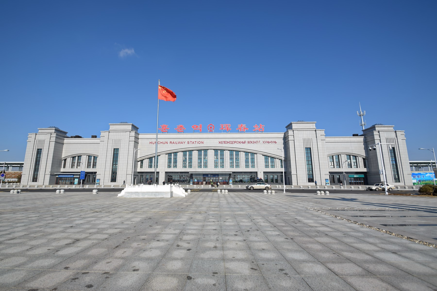 Hunchun Railway Station, Changchun-Hunchun High-Speed Railway (easternmost high-speed railway station in China)